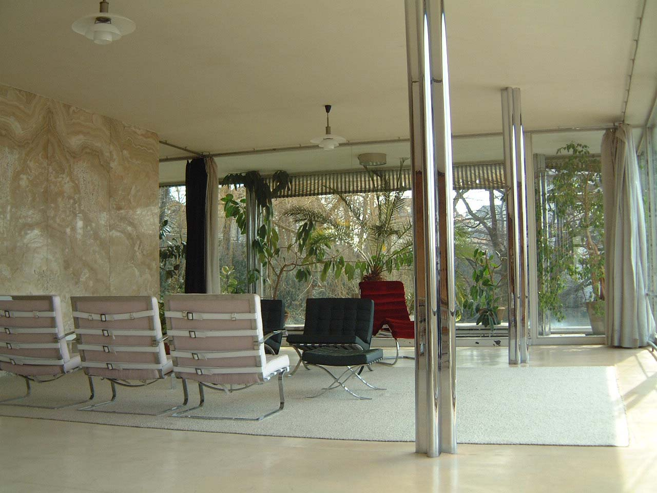 Tugendhat House. The view across the city from the living room, the onyx wall to the left.